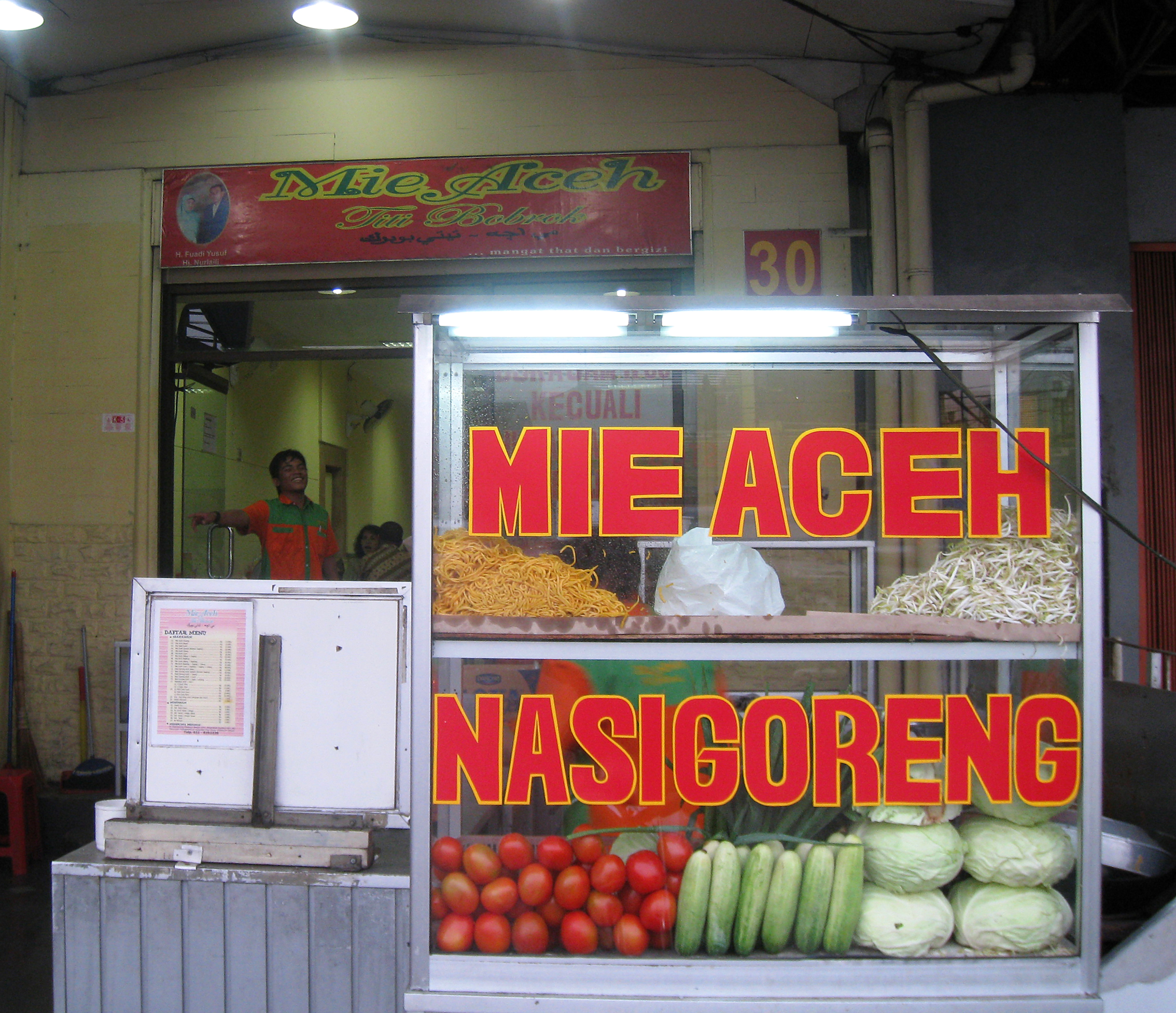 Mie Aceh (Acehnese noodles) and Nasi Goreng Aceh (Acehnese fried rice) restaurant in Kampung Melayu area, Jakarta, Indonesia.